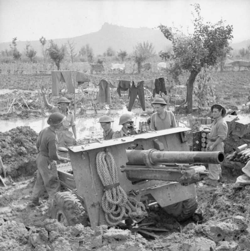 The British Army in Italy 1944 A 25pdr of 83/85 Battery, 11th Field Regiment in a waterlogged position near Scorticate, 3-8 October 1944.